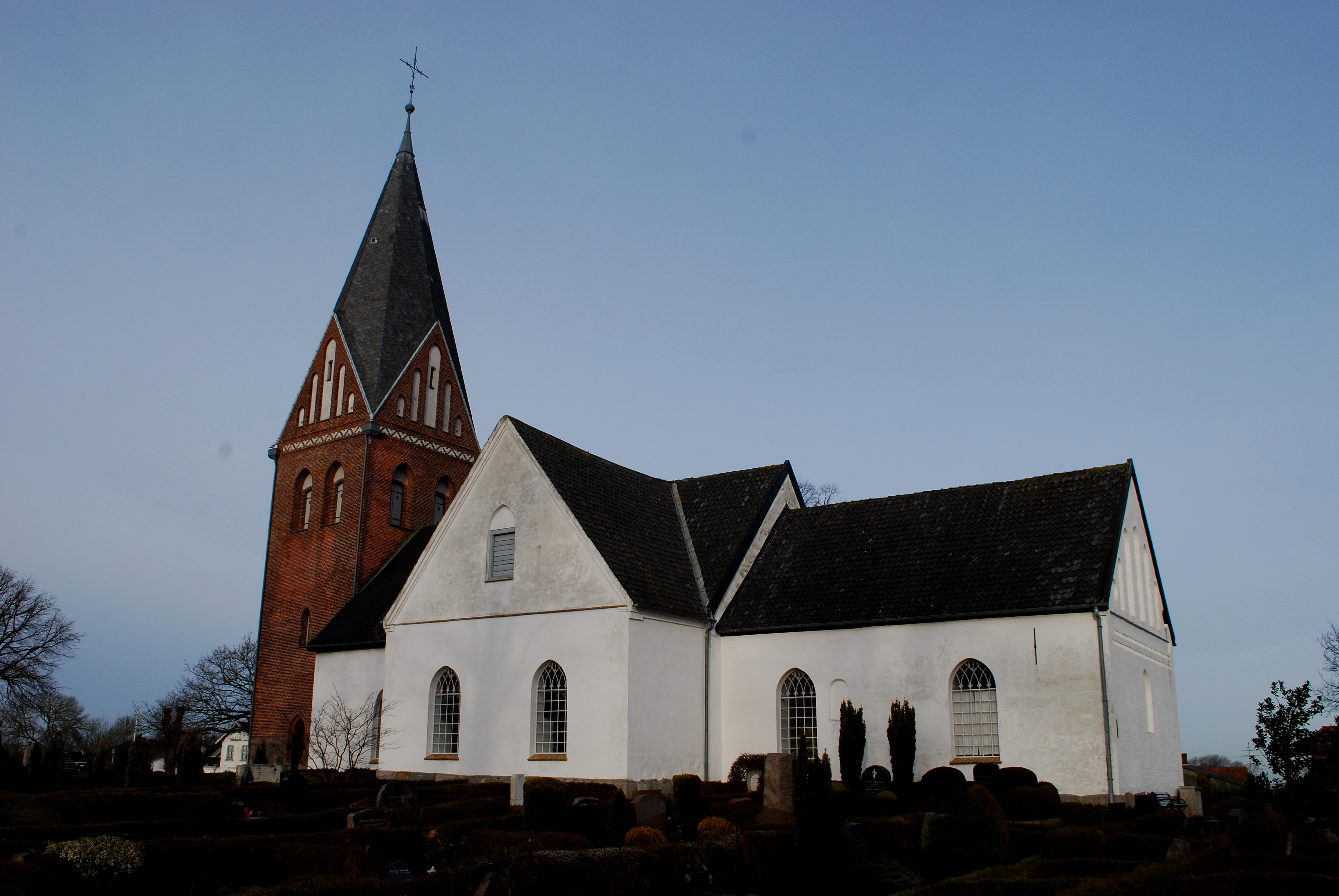 Church of Ullerup, Sundeved, Denmark